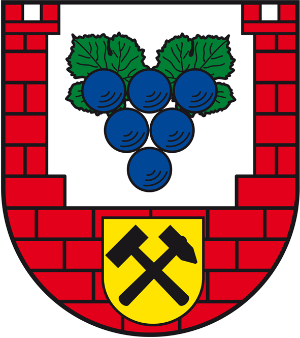 Coat of arms of Burgenlandkreis